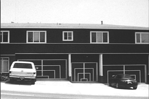 A photographic image from the American artist Judy Fiskin.